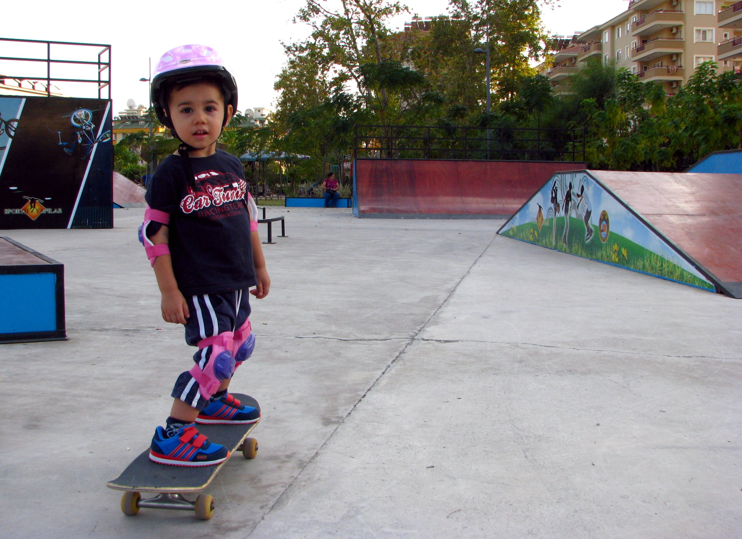 Young Turkish skater in Alanya, Turkey